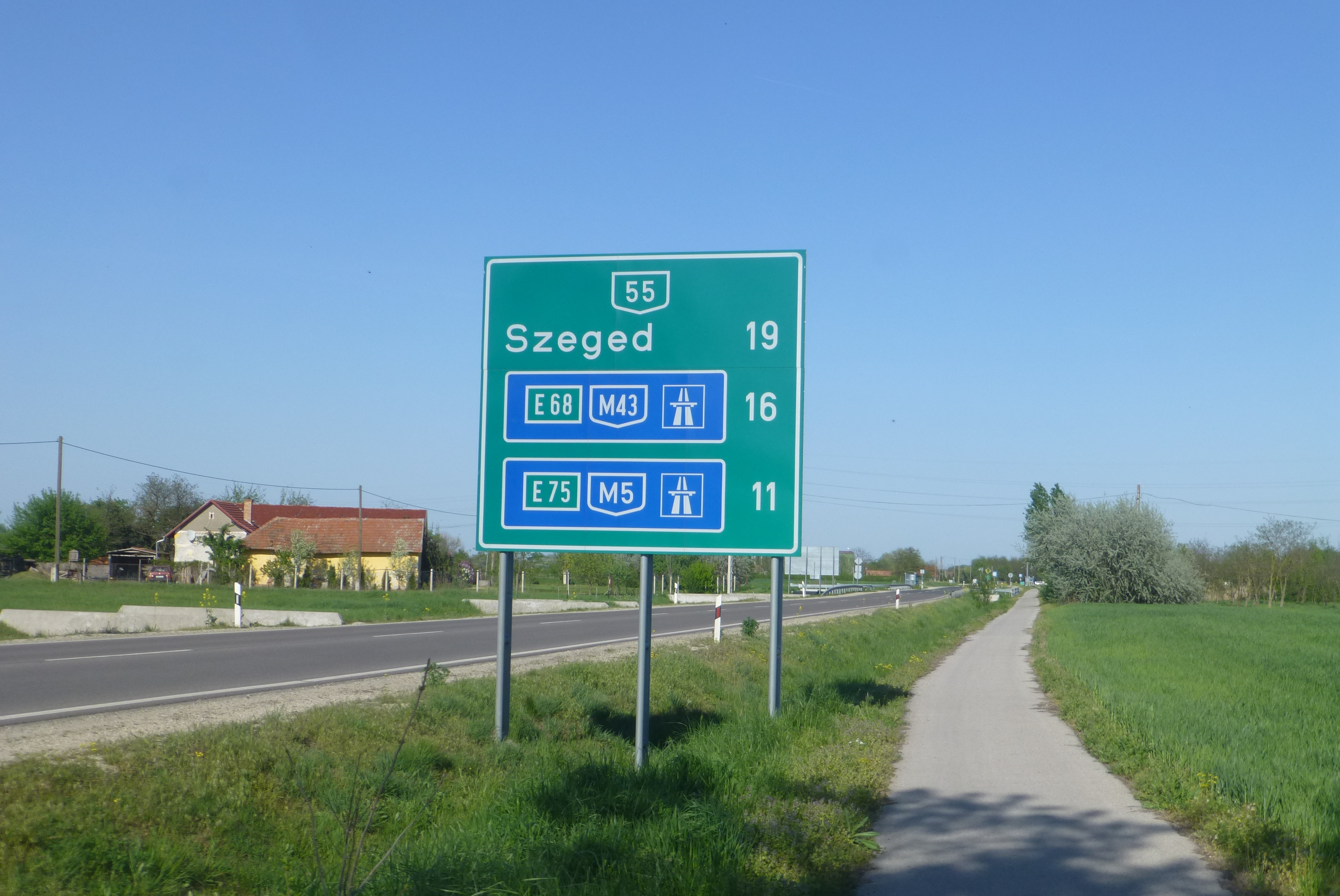 The the Baja-Szeged cycleway in Mórahalom, Hungary